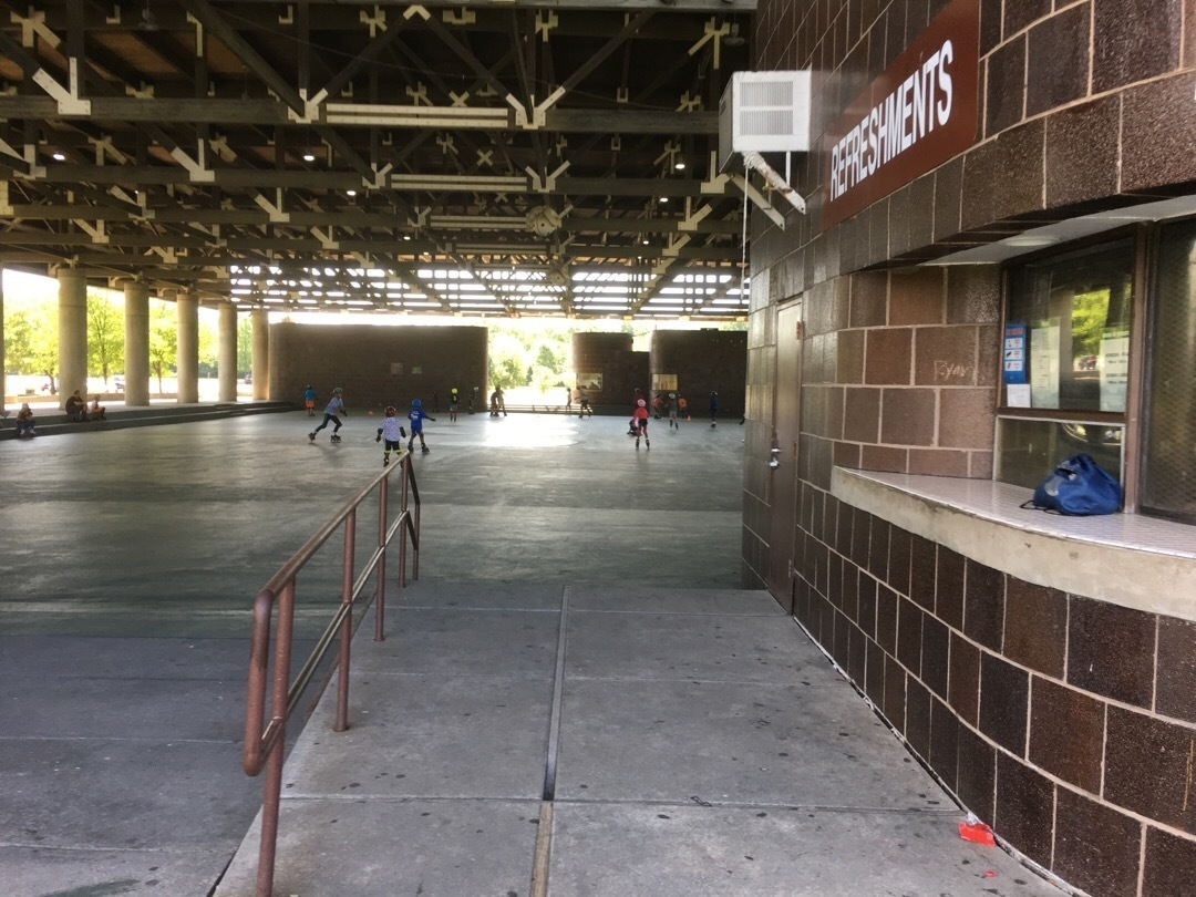 The entrance to the Anacostia Skating Pavilion. Several people are skating. Anacostia Roller Skating Pavilion Keywords: nps; national park service; nace; national capital parks east; dc; district of columbia; washington; anac; anacostia park; skating pavilion